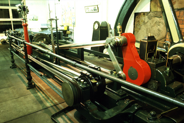 Steam engine, Providence Mills, Dewsbury. The engine is a tandem compound that was built as a single by Cardwell (the only survivor) and compounded by Woodhouse & Mitchell of Brighouse. It is unusual in that it always appears to have run non-condensing. It was restored by Chris Evans and Paul Akrigg in the 1980s but now runs rarely.